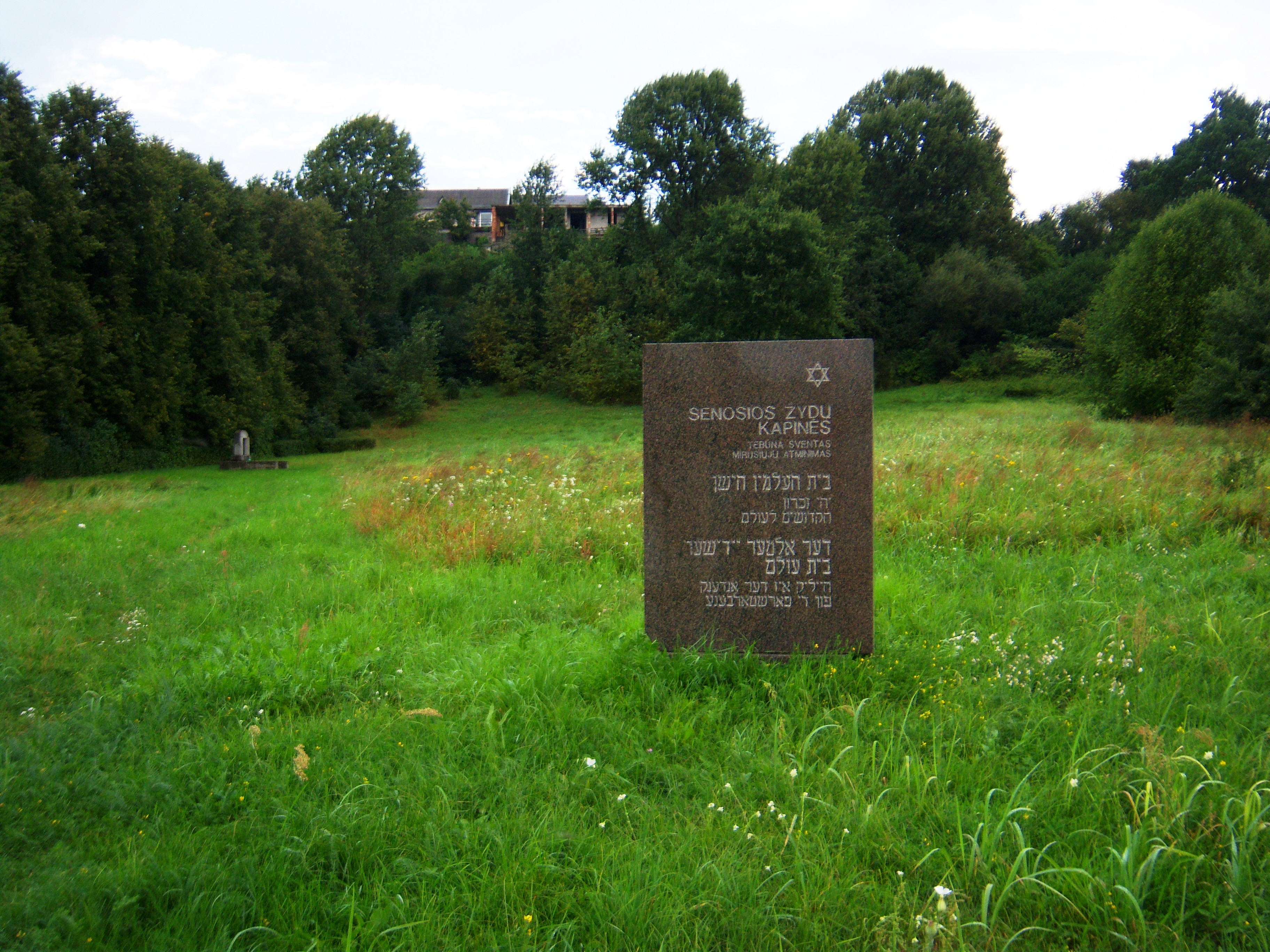 Old Jewish cemetery, Vilijampolė, Kaunas, Lithuania